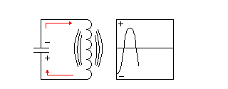 Joonis 2. Kondensaatori laadumine ja tühjenemine võnkeringis